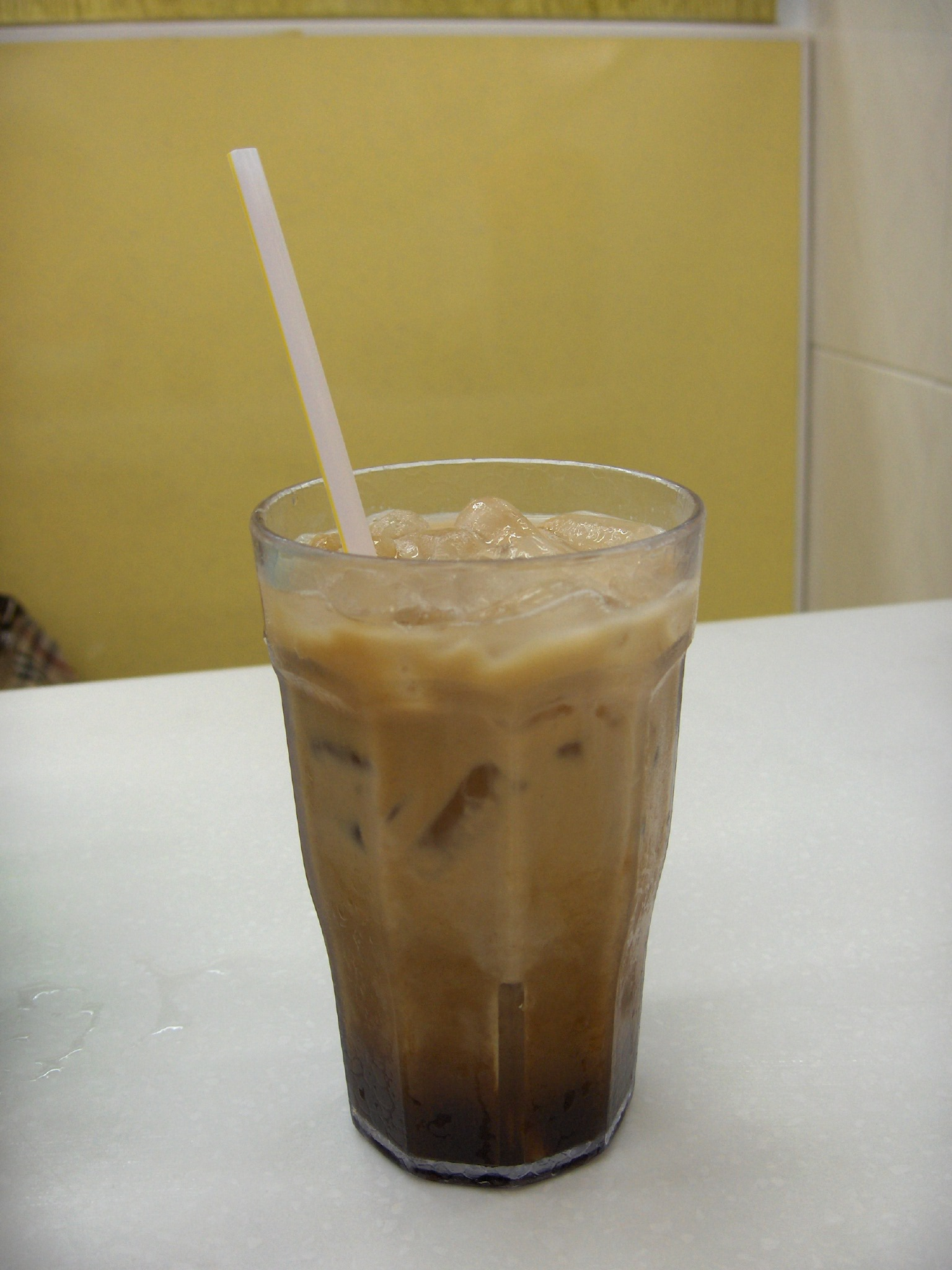 I took this photo at a Cha chaan teng in Hong Kong